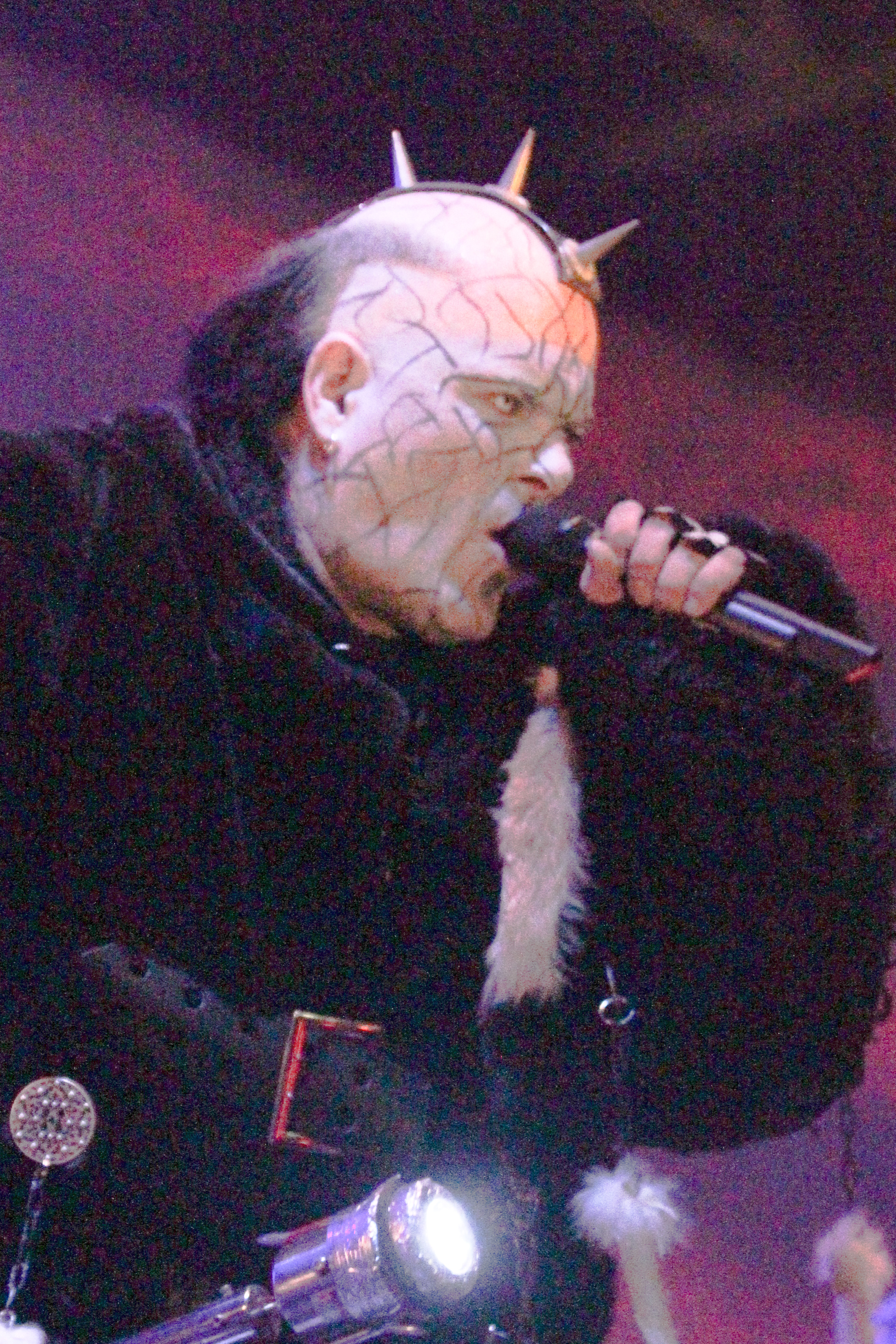 Umbra et Imago at the Wave-Gotik-Treffen 2014.